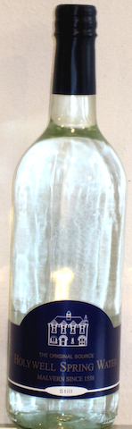 Photo: Malvern water bottled by Holy Well, Malvern Wells